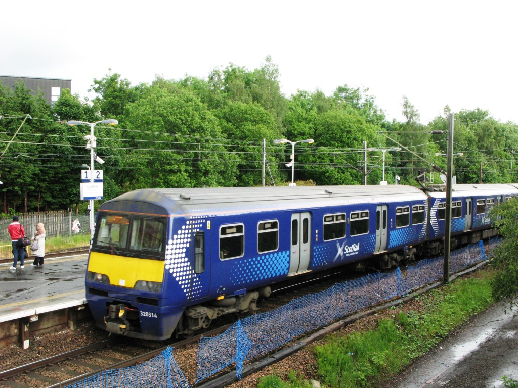 First ScotRail's 320314 calls at Hyndland station in Glasgow with a westbound service.